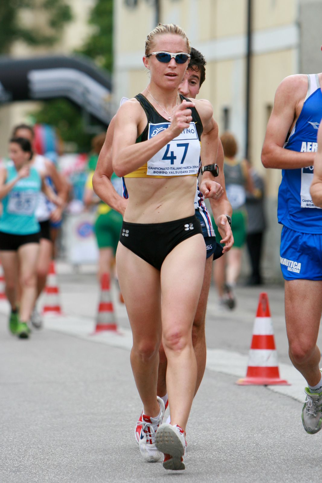 Elisa Rigaudo in action during the 20km racewalking italian championship in Borgo Valsugana